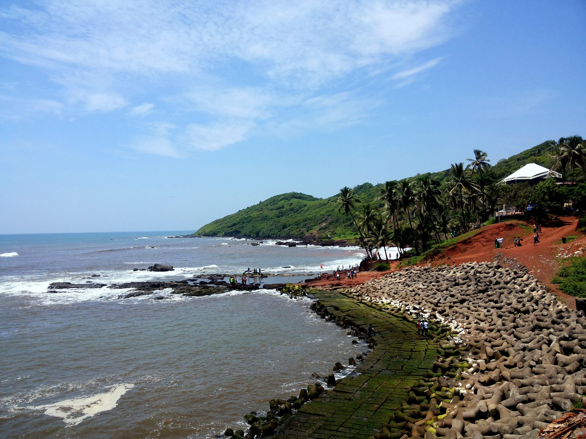 Anjuna beach water receding